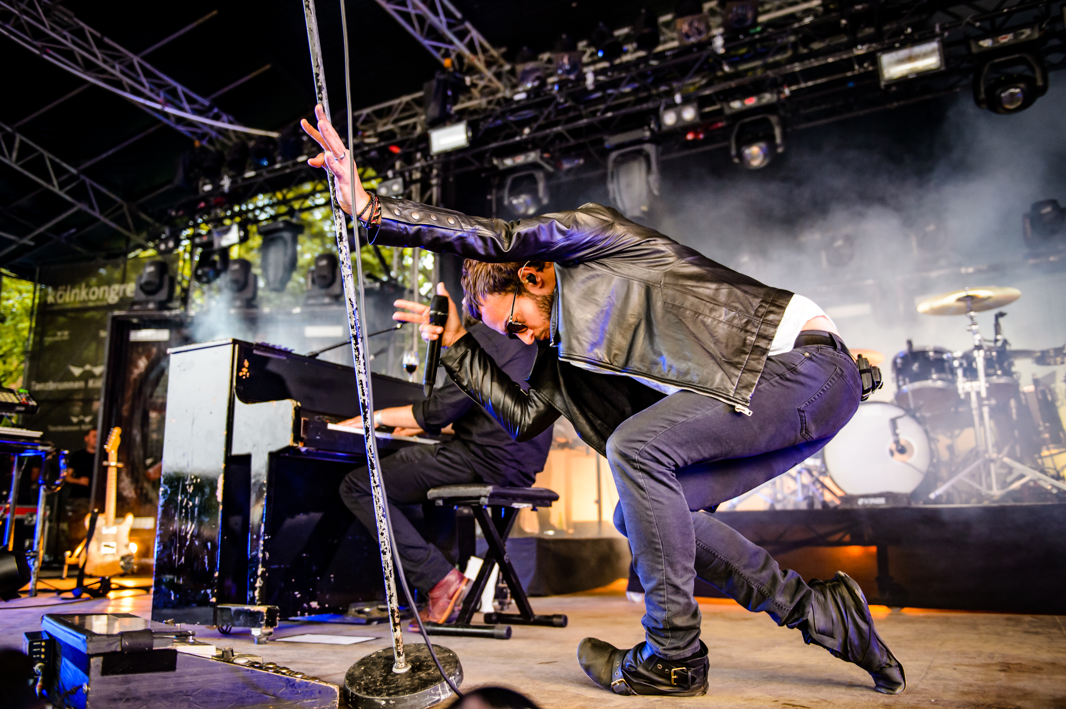 Editors; Amphi festival 2016